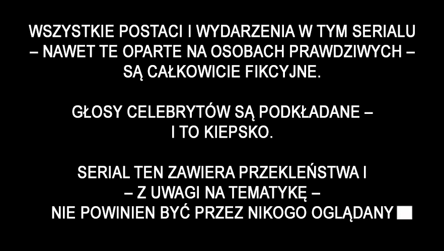 Polish version of the disclaimer that precedes the South Park episodes.